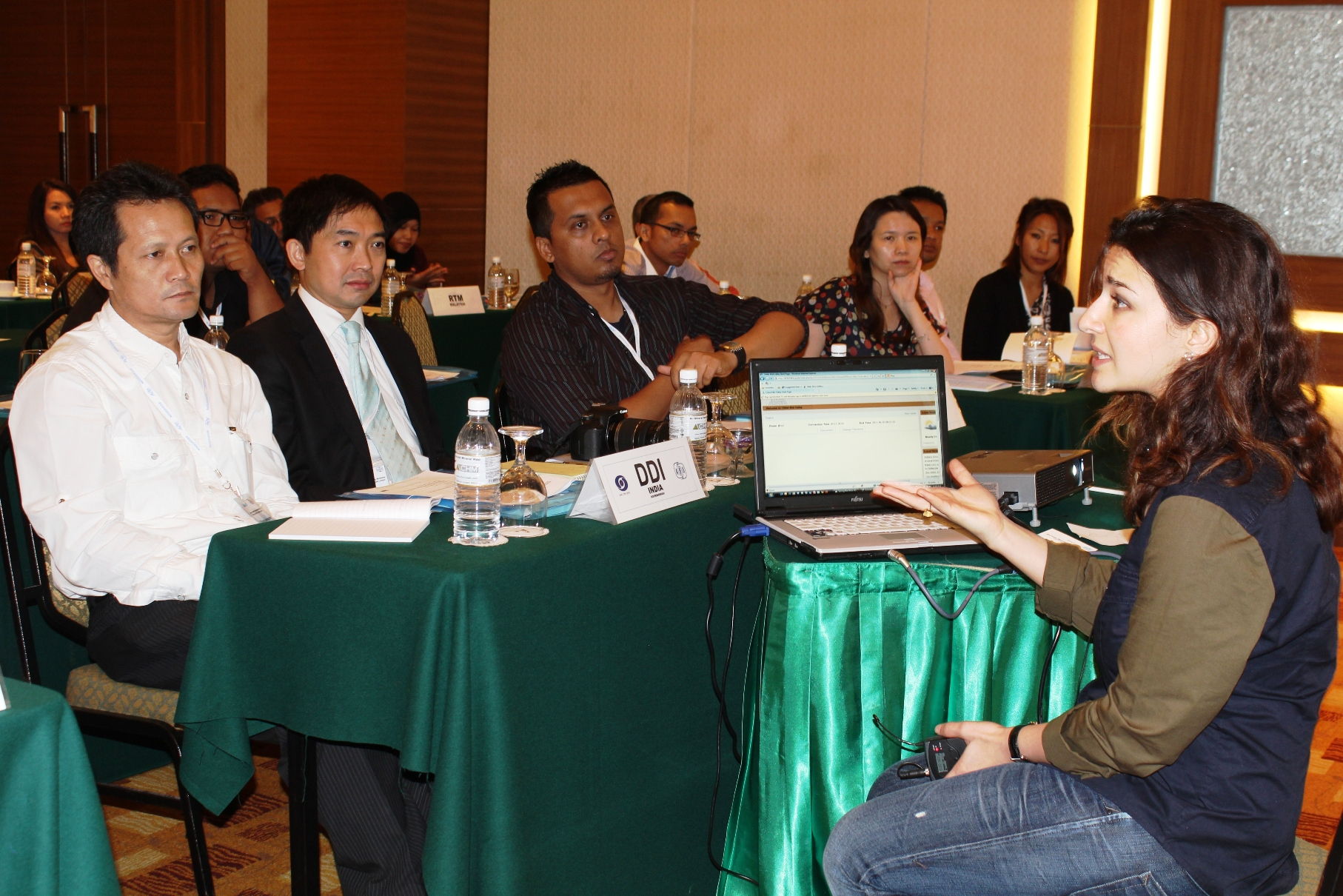 Sports news training for Asiavision journalists, Kuala Lumpur 2011